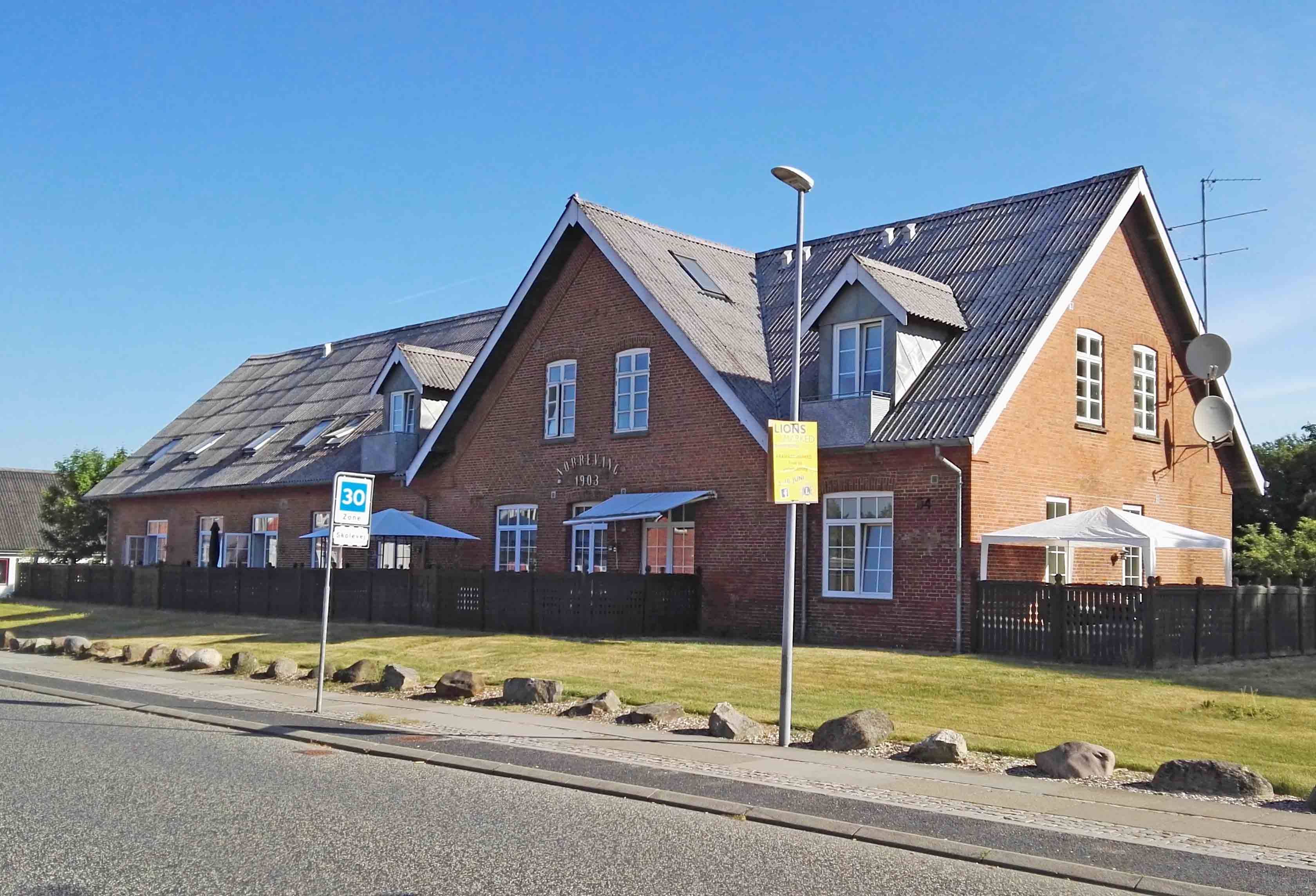 Mejeriet Nørrevang i Fårvang fra 1903